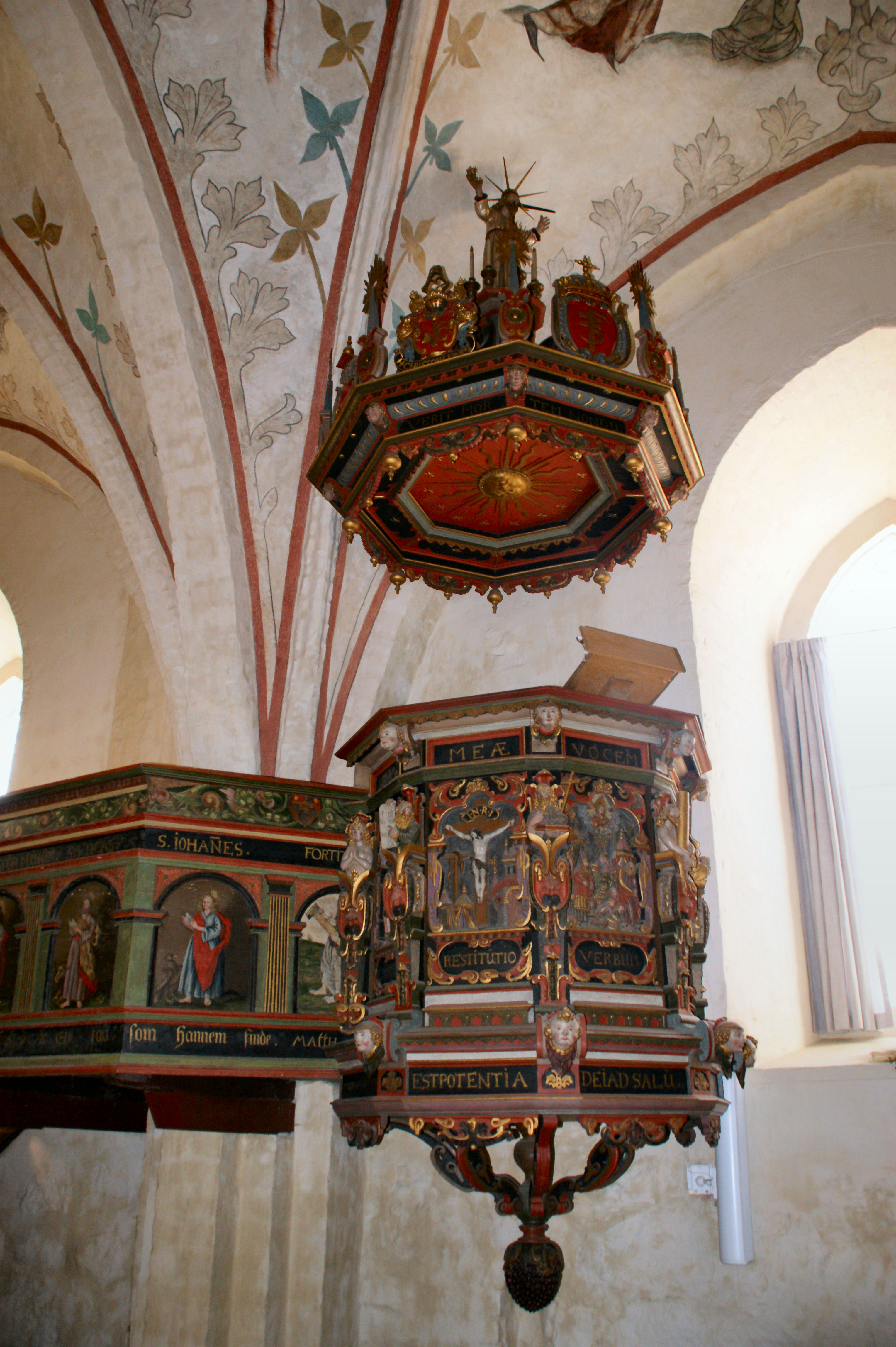 Hojby Church, Denmark - Pulpit